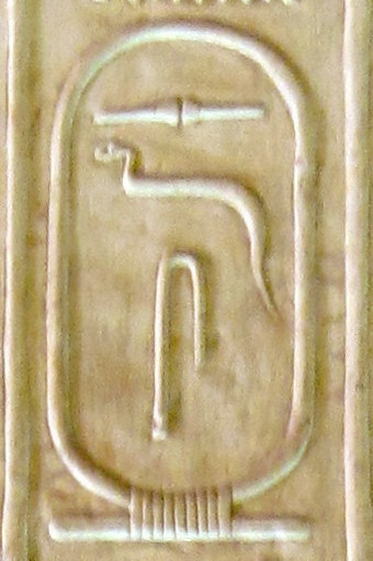 Cartouche 18, Abydos King List. Temple of Seti I, Abydos, Egypt